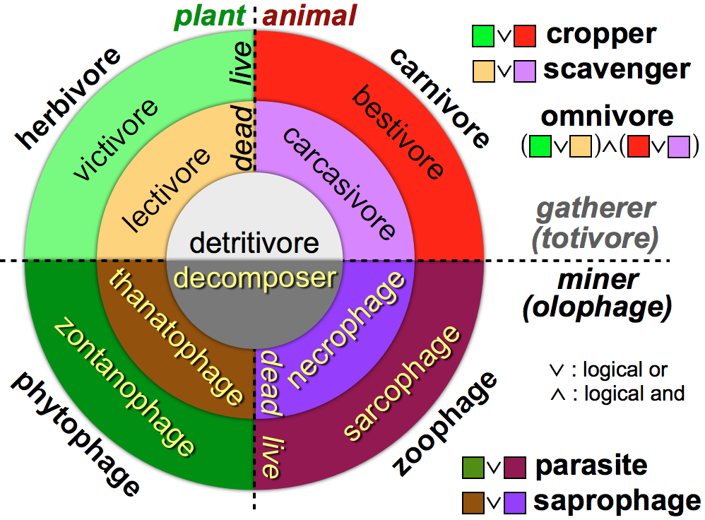 Consumer Types based on Biomass Transformation Theory (see Getz, W. M. 2011. Biomass Transformation Webs and Anthrax in Etosha National Park. Ecology Letters.